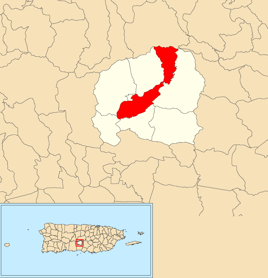 Hato Puerco Arriba, Villalba, Puerto Rico locator map